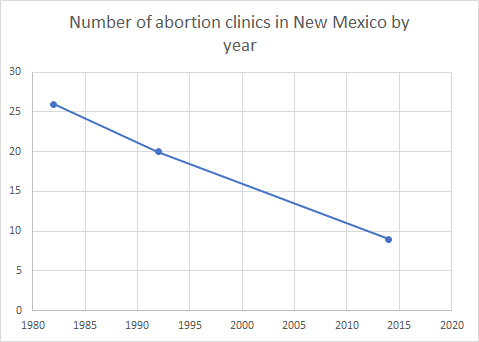 Number of abortion clinics in New Mexico by year. Data is from articles linked at